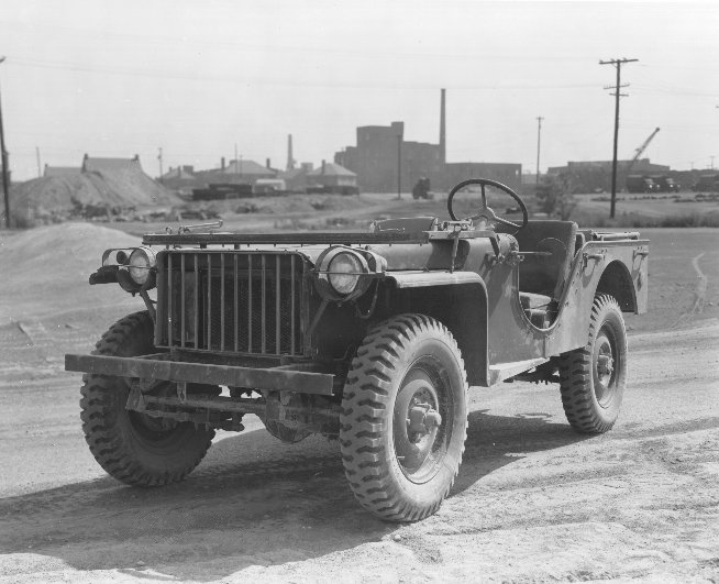 Car, Bantam, 1/4 Ton, 4×4 Light Reconnaissance. This BRC-40 was photographed during Army testing.